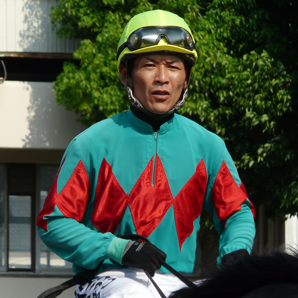 Manabu-Tanaka20110815